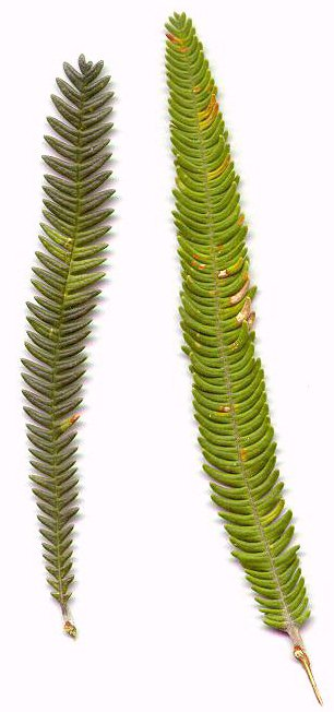 Two leaves of Banksia brownii, showing variations between the two forms. Left: a leaf of the shrubby "mountain form". Right: a leaf of the "Millbrook Road form", which usually grows as a tree.